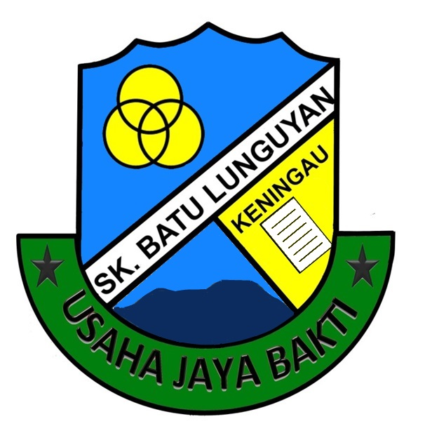 SK Batu Lunguyan